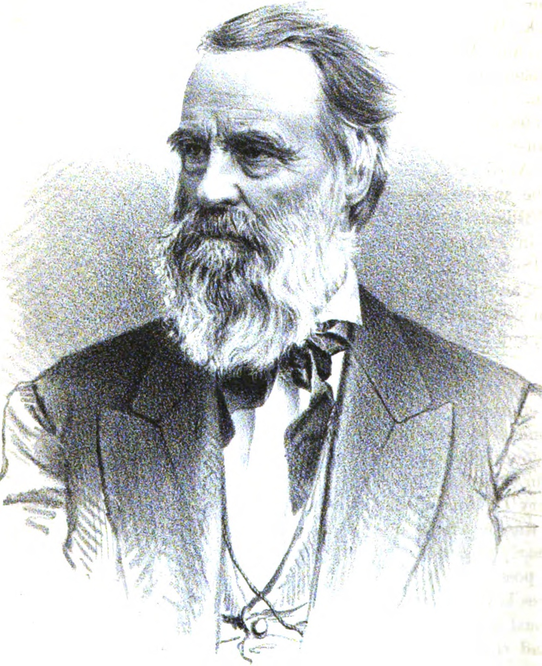 Emery D. Potter in drawn in 1872.